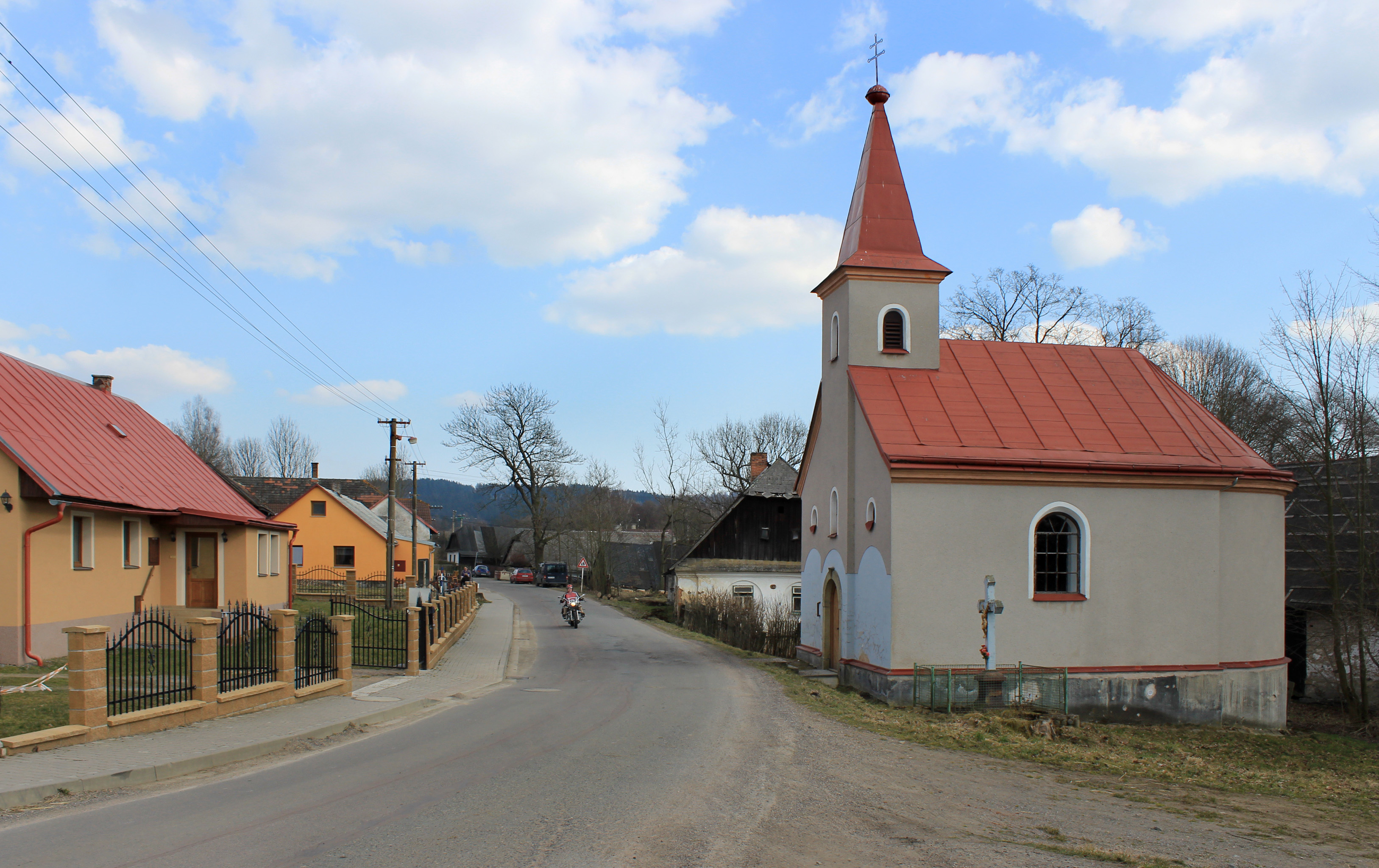 Main street in Stan, part of Vítanov village, Czech Republic.